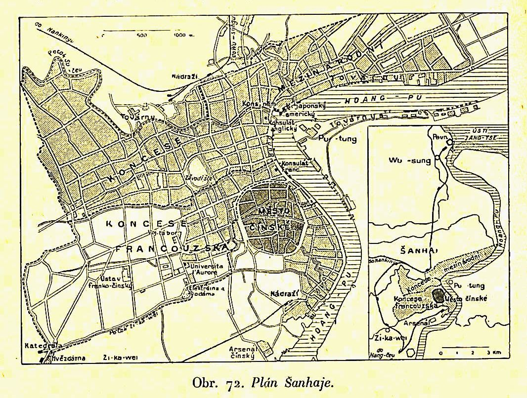 Map of Shanghai after the First World War. The descriptions are in Czech.